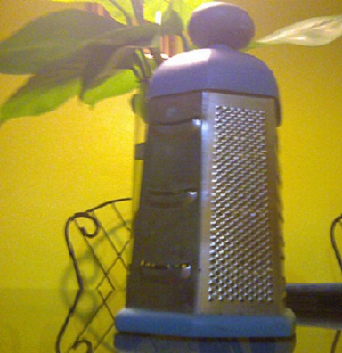 Picture make in Dominican Republic for Samil Francisco